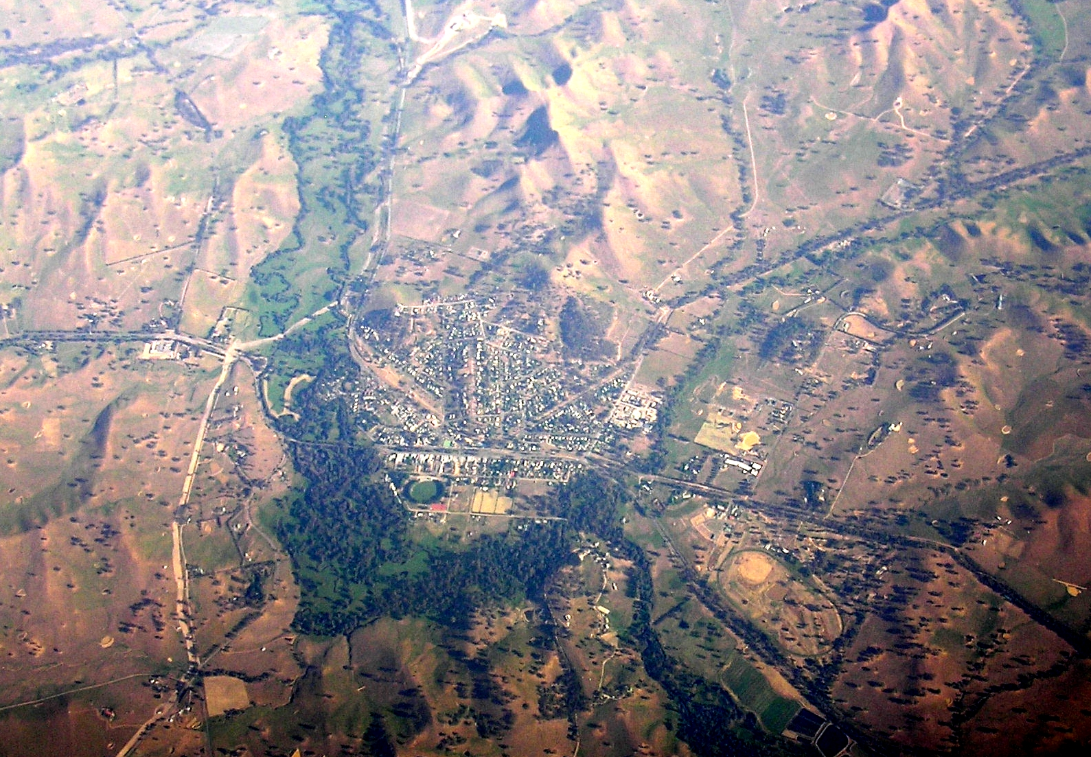 Yea Victoria from above